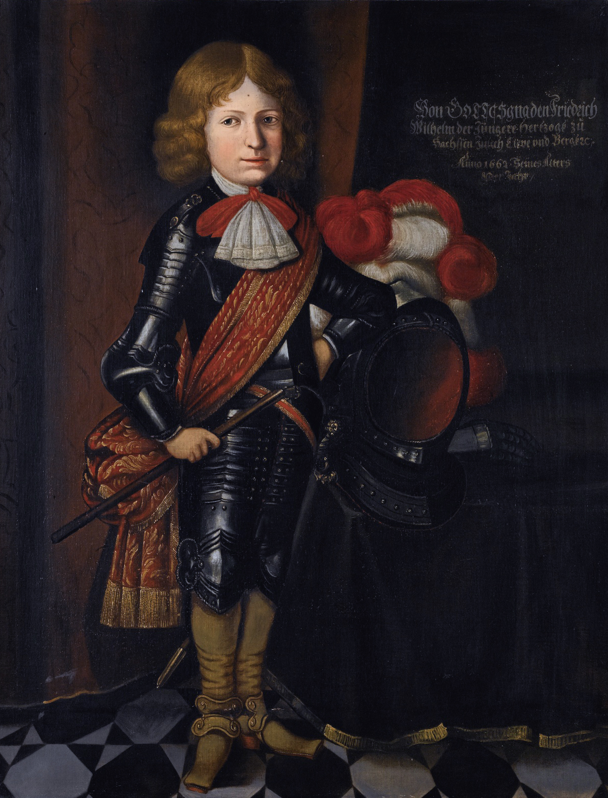 Friedrich Wilhelm III, duke of Saxe-Altenburg (1657-1672) oil on canvas 109 by 85.5 cm inscribed t.r.: Von Bollergnaden Friedrich / Willhelm der Jüngere hertzoge zu / Sachson...und Berg... / Anno 1662...